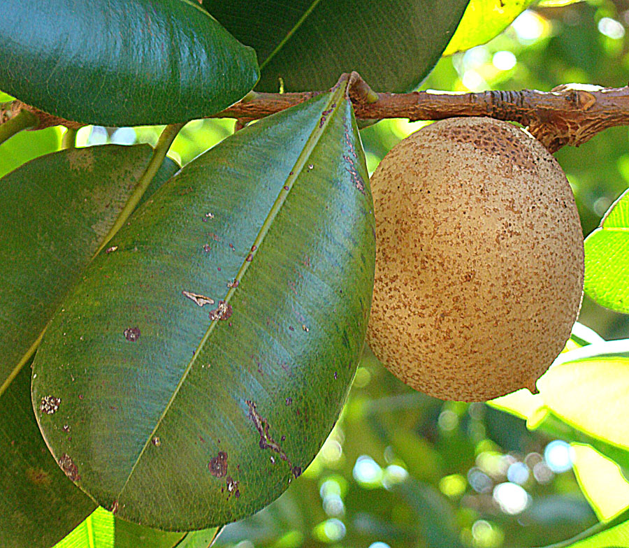 Of Neotropical origin, but planted more widely in the tropics. Photo from near Volcan Mombacho, Nicaragua. In context at